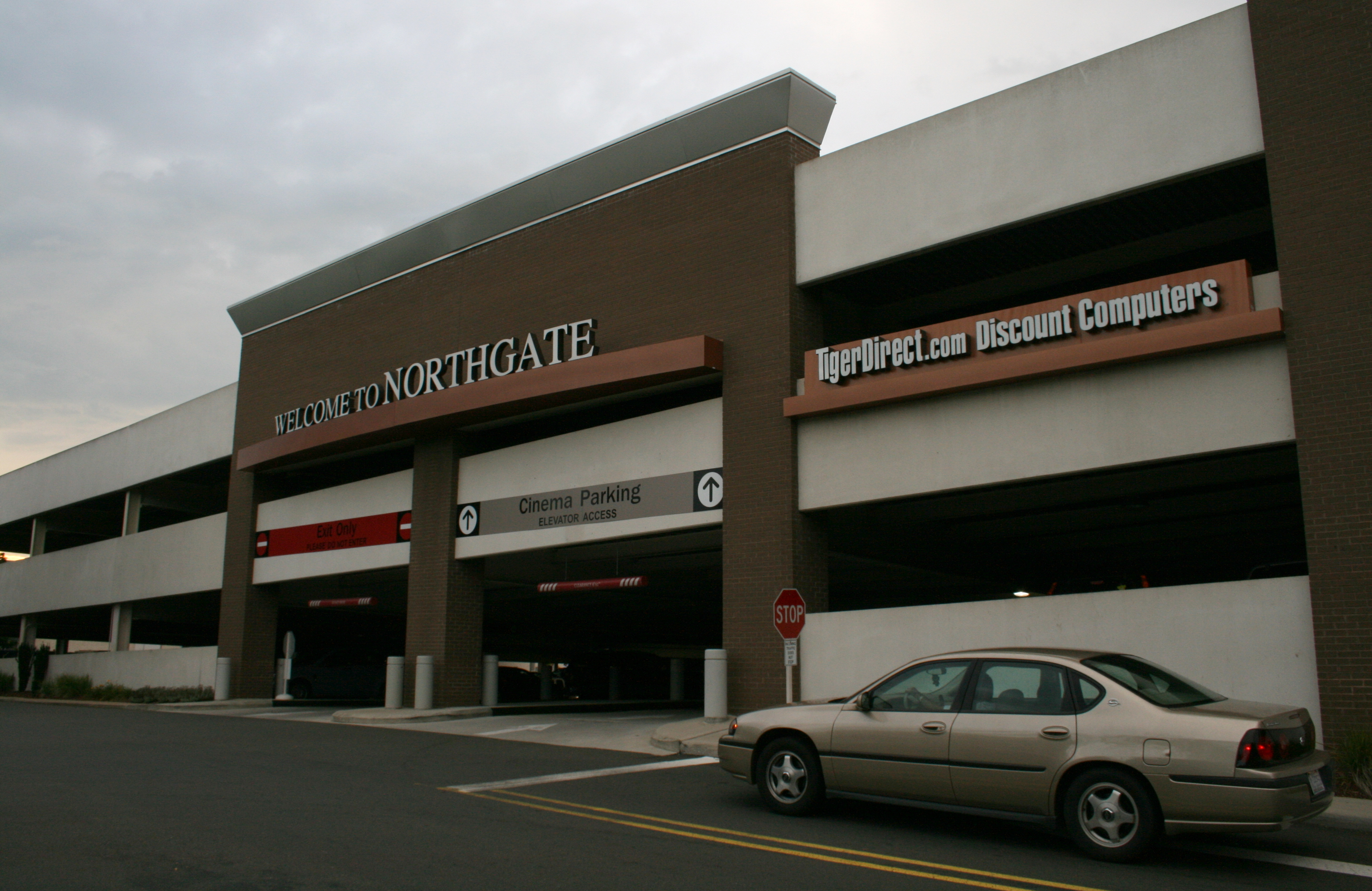 Entrance to the newer of the two parking decks at Northgate Mall in the evening in Durham, North Carolina.